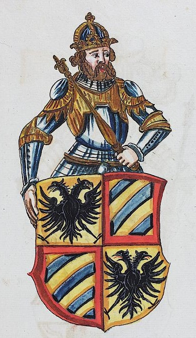 Rudolph, King of Burgundy, husband of Bertha